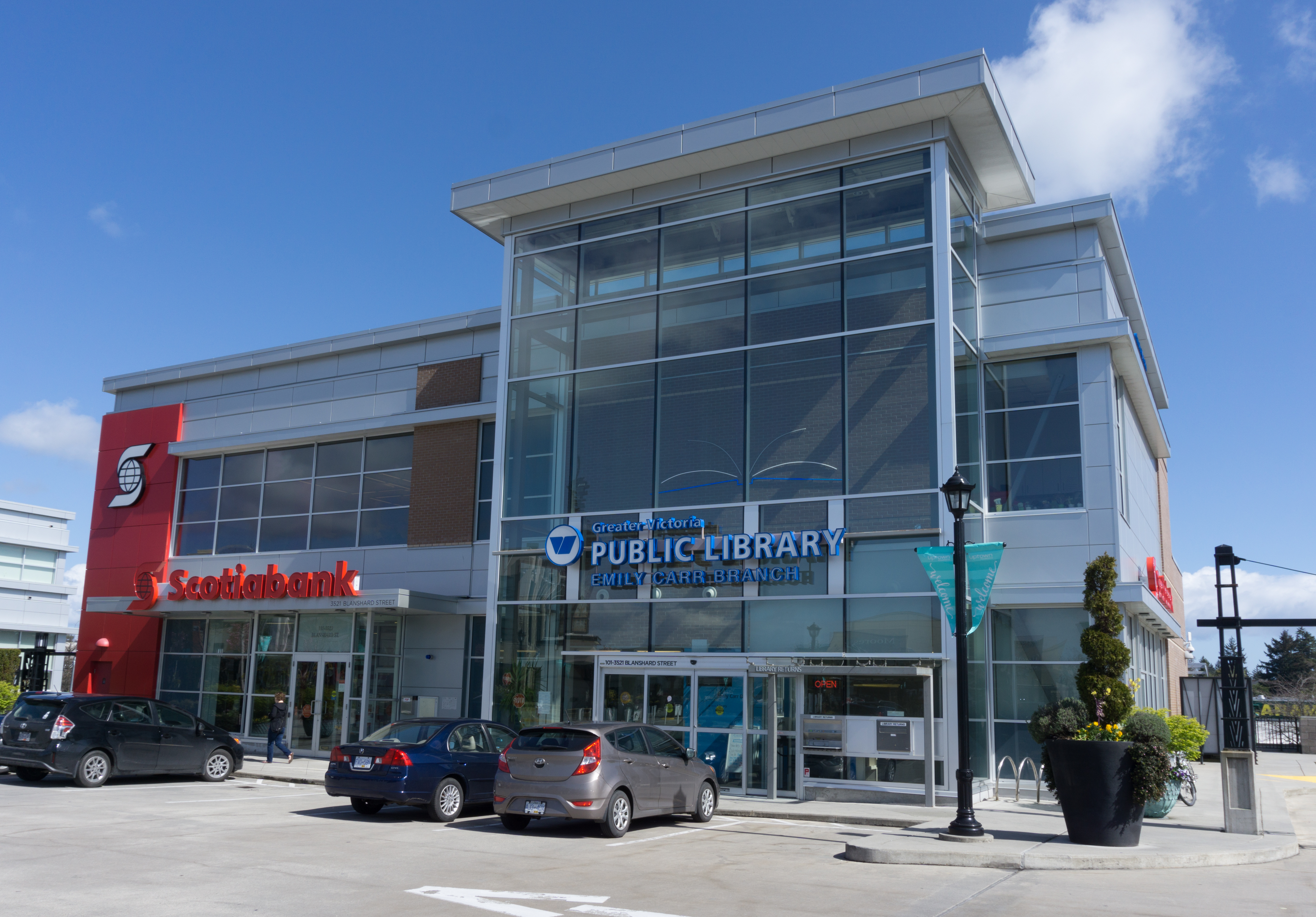 Emily Carr Branch Library. Victoria, British Columbia, Canada